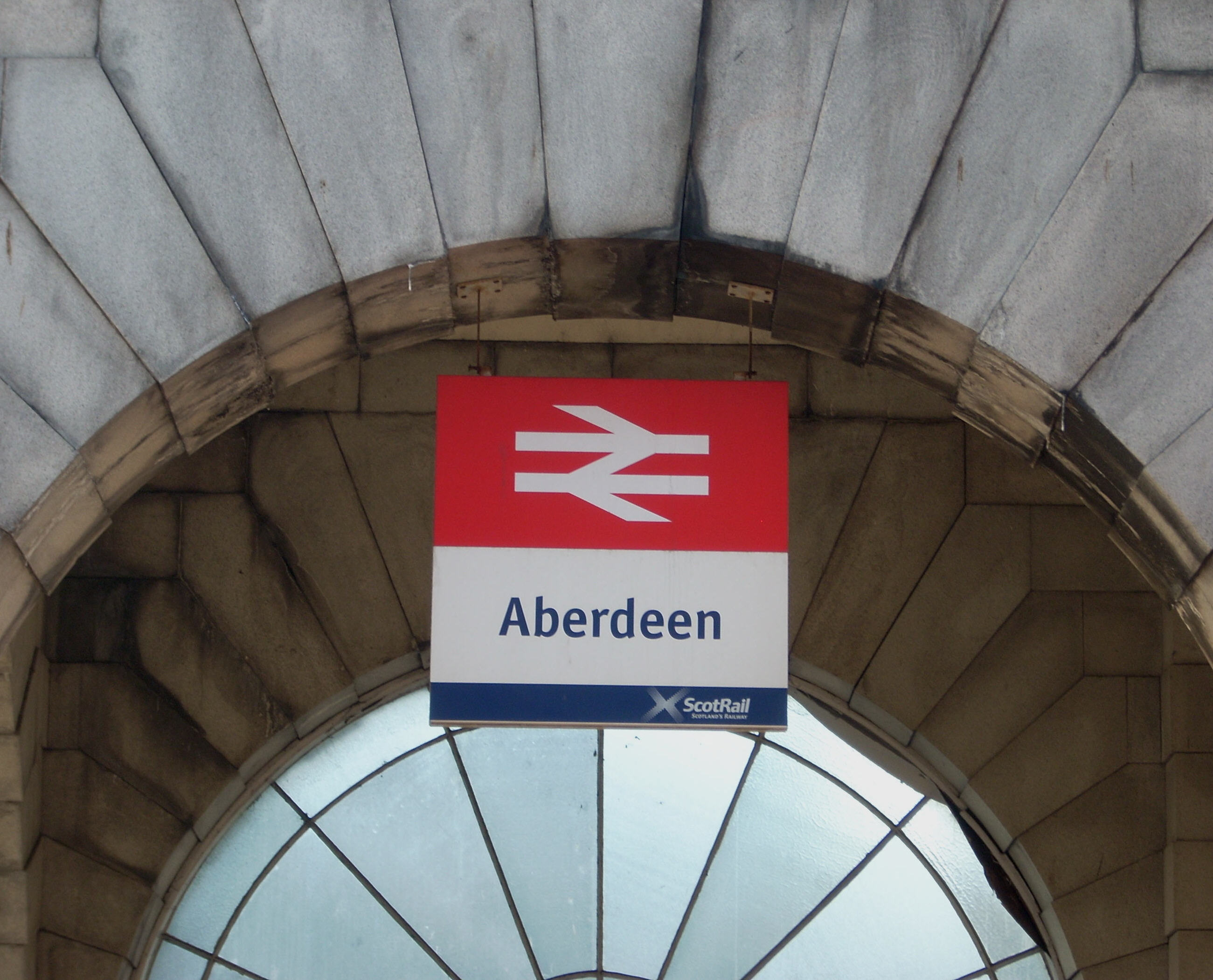 Station sign at Aberdeen, Scotland